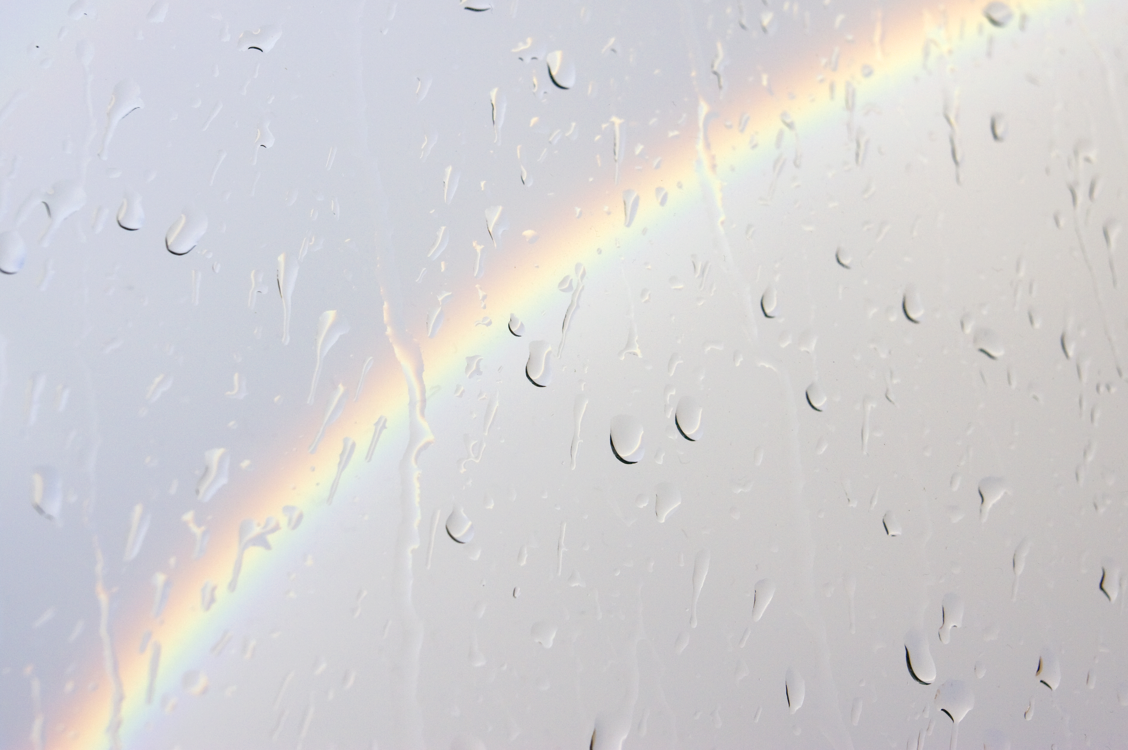 Raindrops on a window of a building in Amsterdam, The Netherlands.